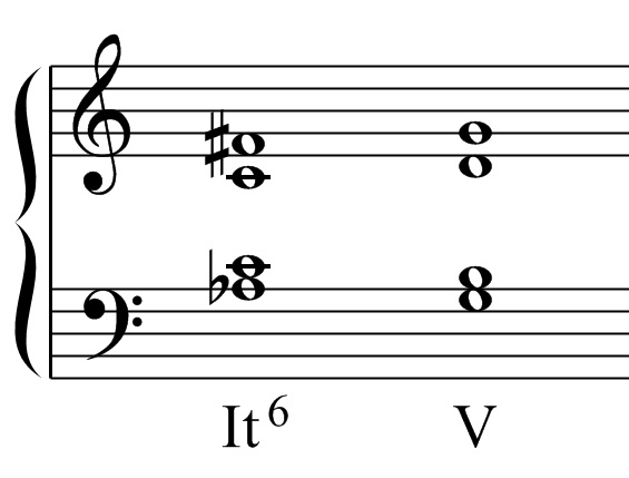 Italian sixth moving to V.